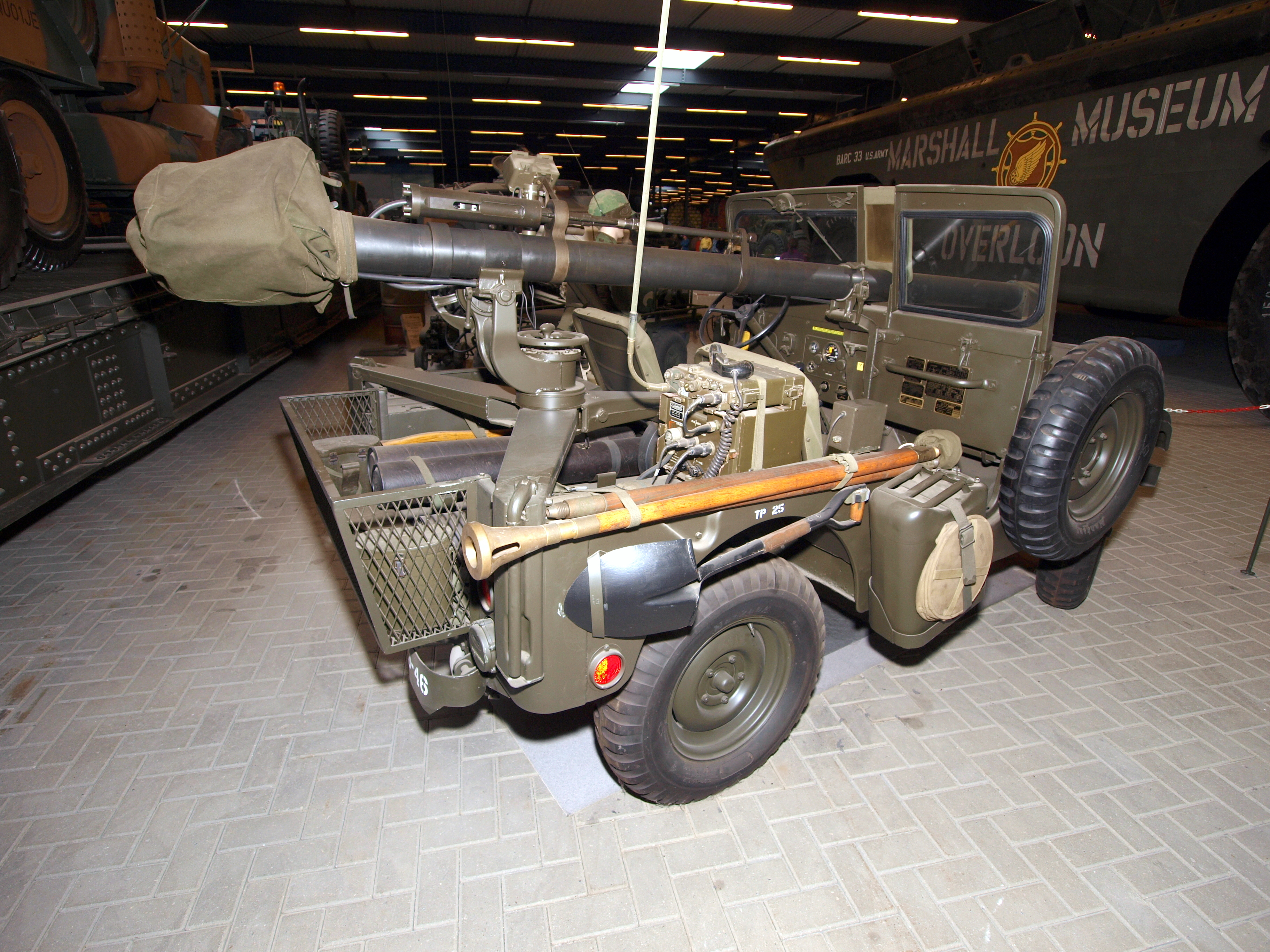 Photographed at the Marshallmuseum - Liberty Park - Oorlogsmuseum Overloon, The Netherlands. OLYMPUS DIGITAL CAMERA